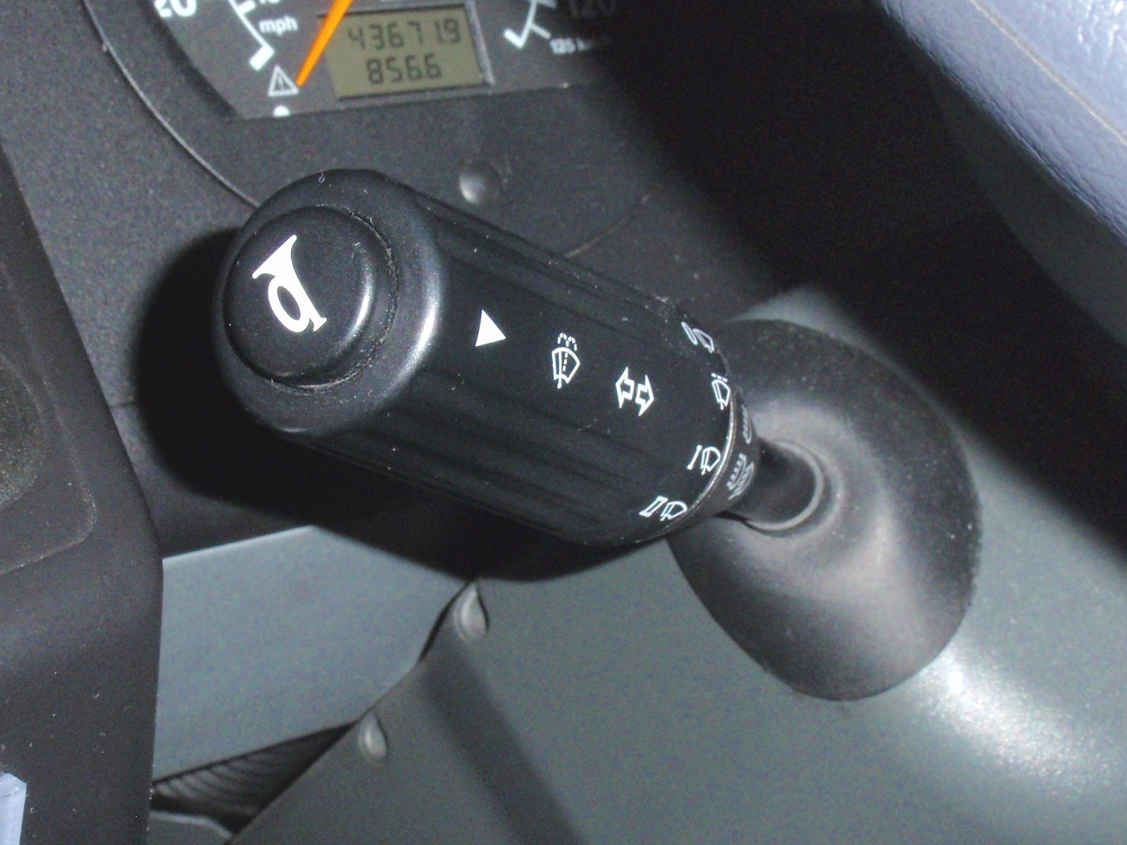 The multi-function lever with which blinkers, a wiper, and a horn peculiar to Mercedes Benz were united